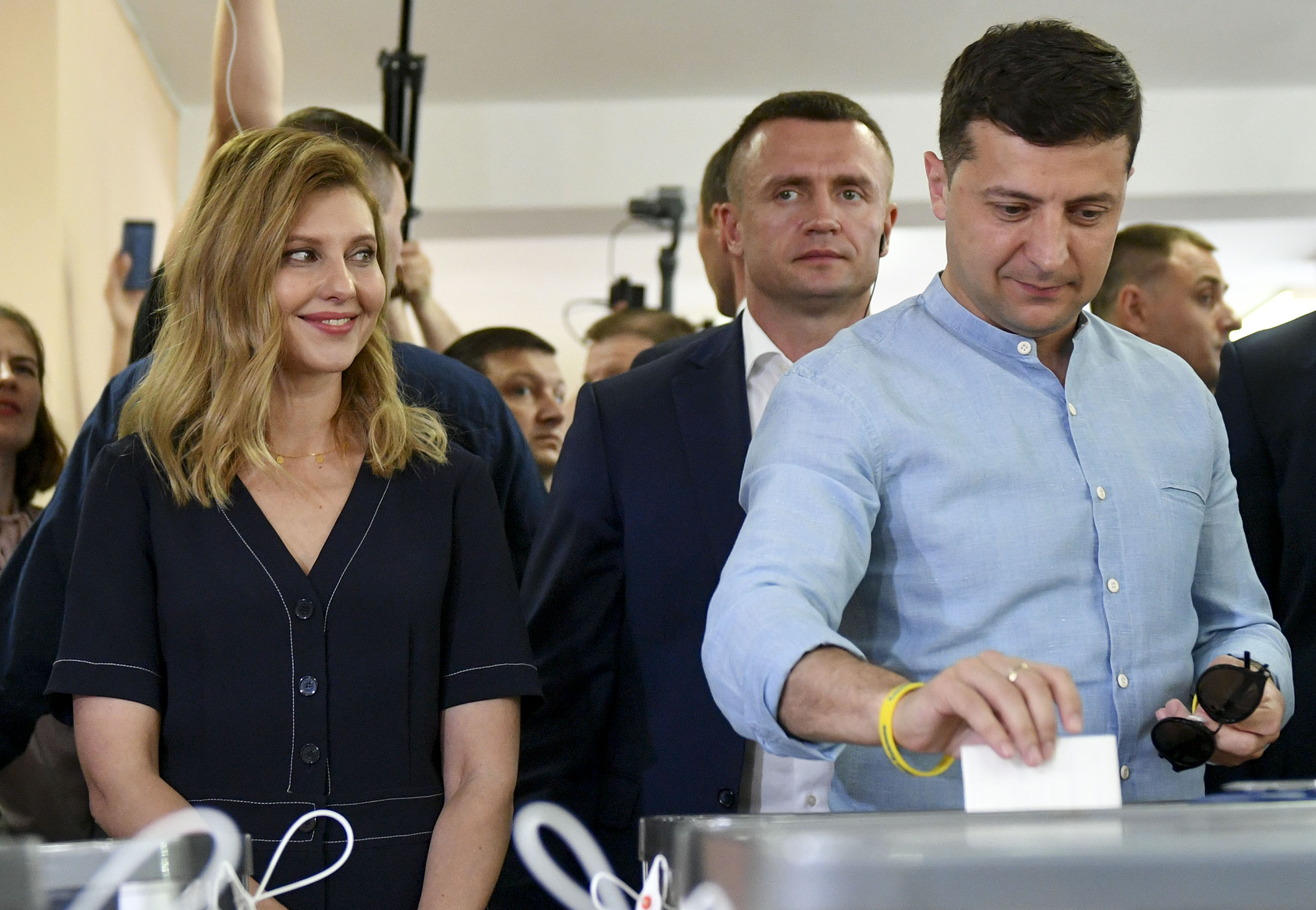 Volodymyr Zelenskyy voted in parliamentary elections (2019-07-21)